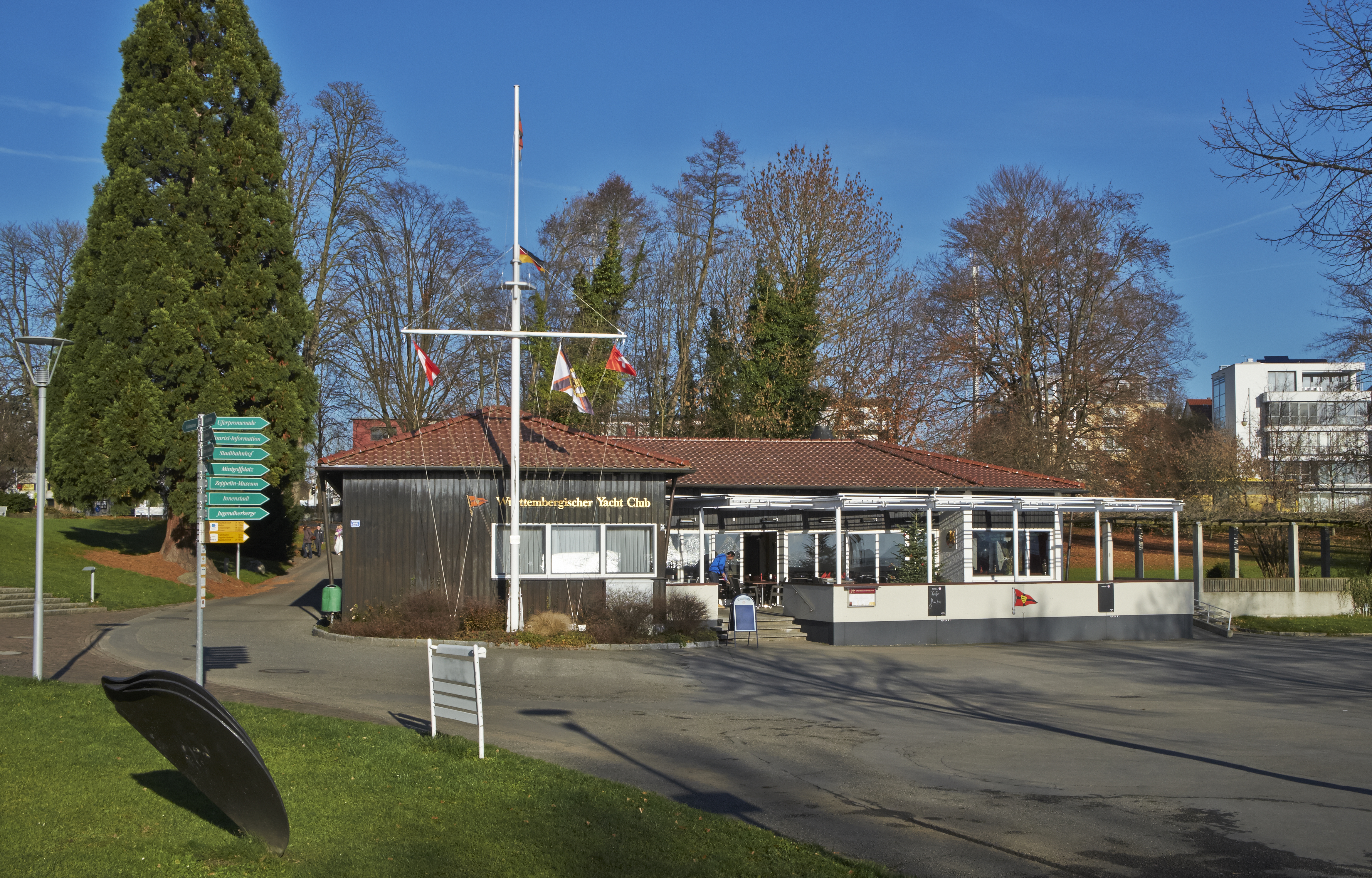 Württembergischer Yacht Club, Friedrichshafen, Lake Constance, county Bodenseekreis, Baden-Württemberg, Germany